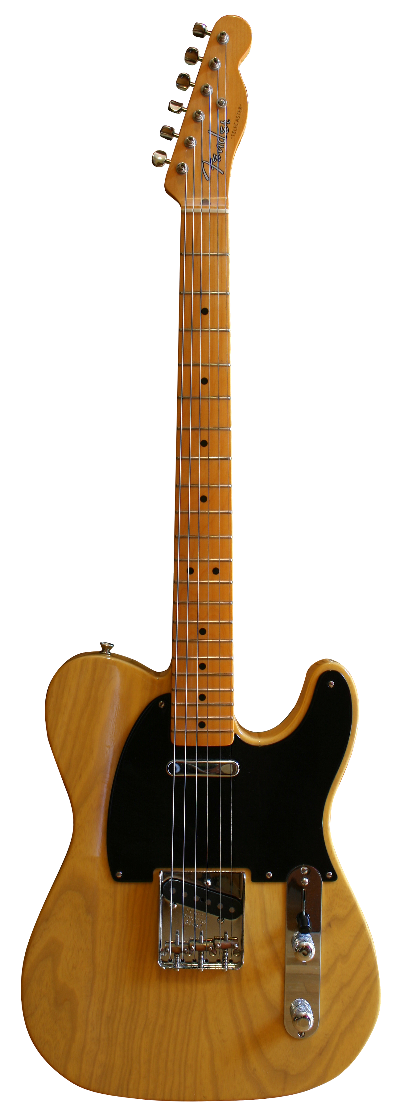 Fender Telecaster American Vintage 1952 with transparent background